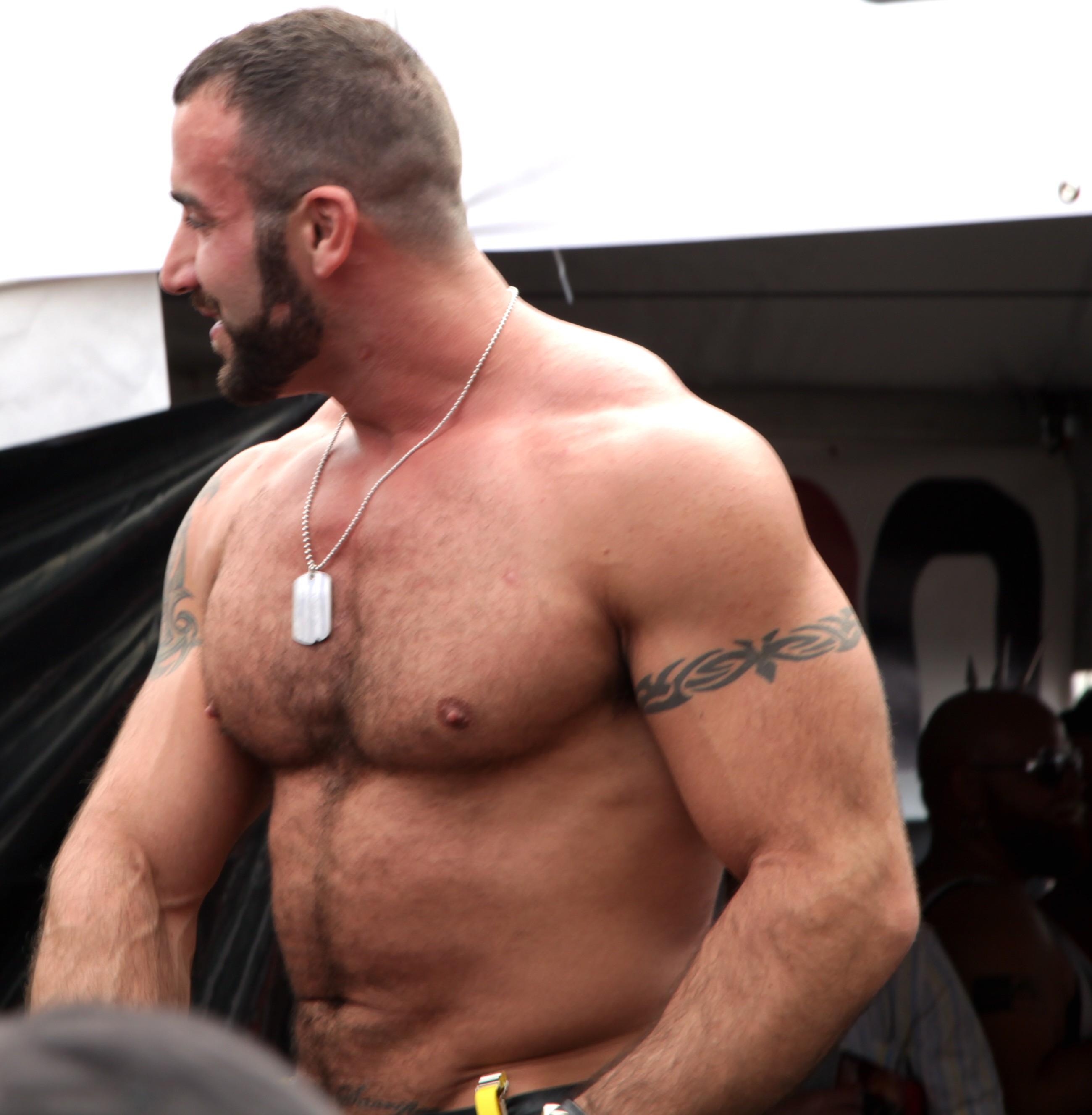 Spencer Reed at Folsom Street Fair 2011